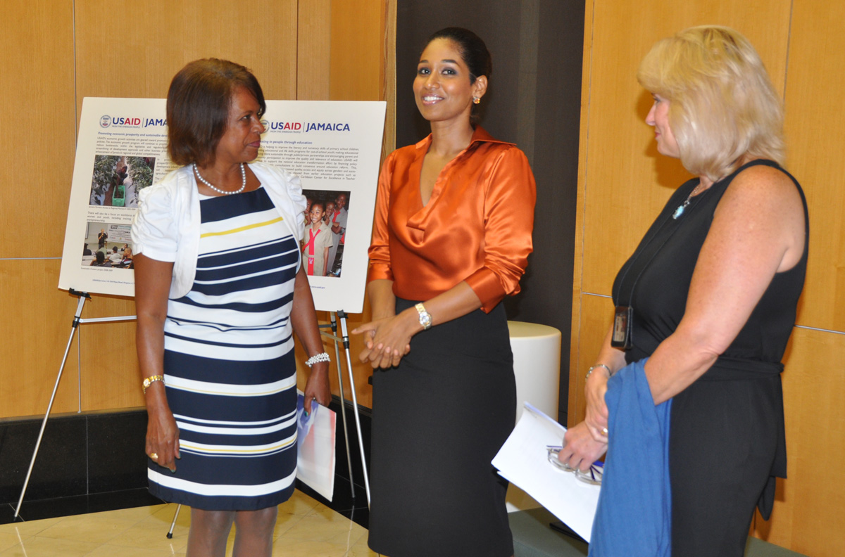 U.S. Ambassador Pamela E. Bridgewater (left), Hon. Lisa Hanna, Minister of Youth And Culture (centre), Denise Herbol, USAID Jamaica Mission Director (right)